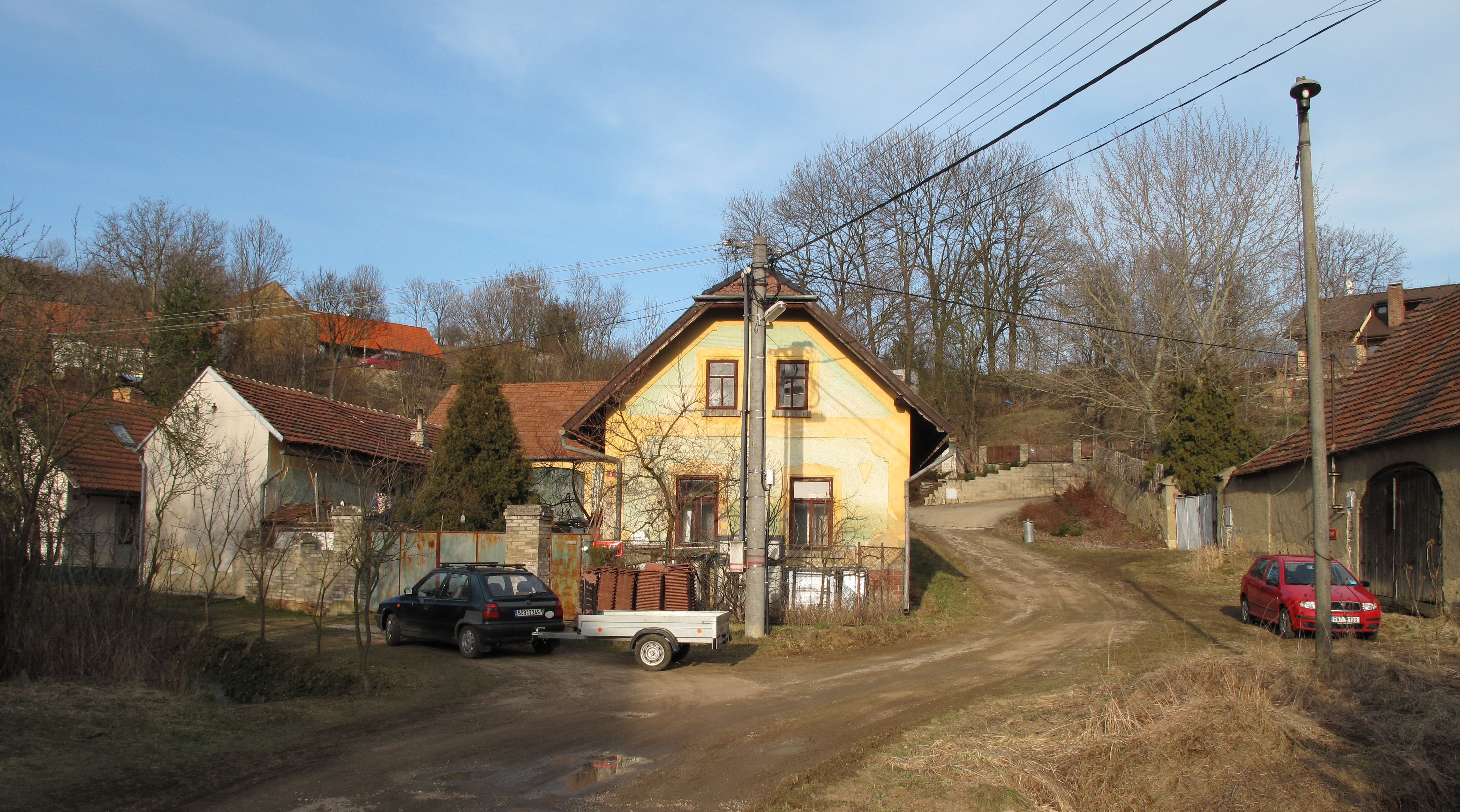 Houses by stream in Běleč village (Liteň municipality, Beroun District, Czech Republic.